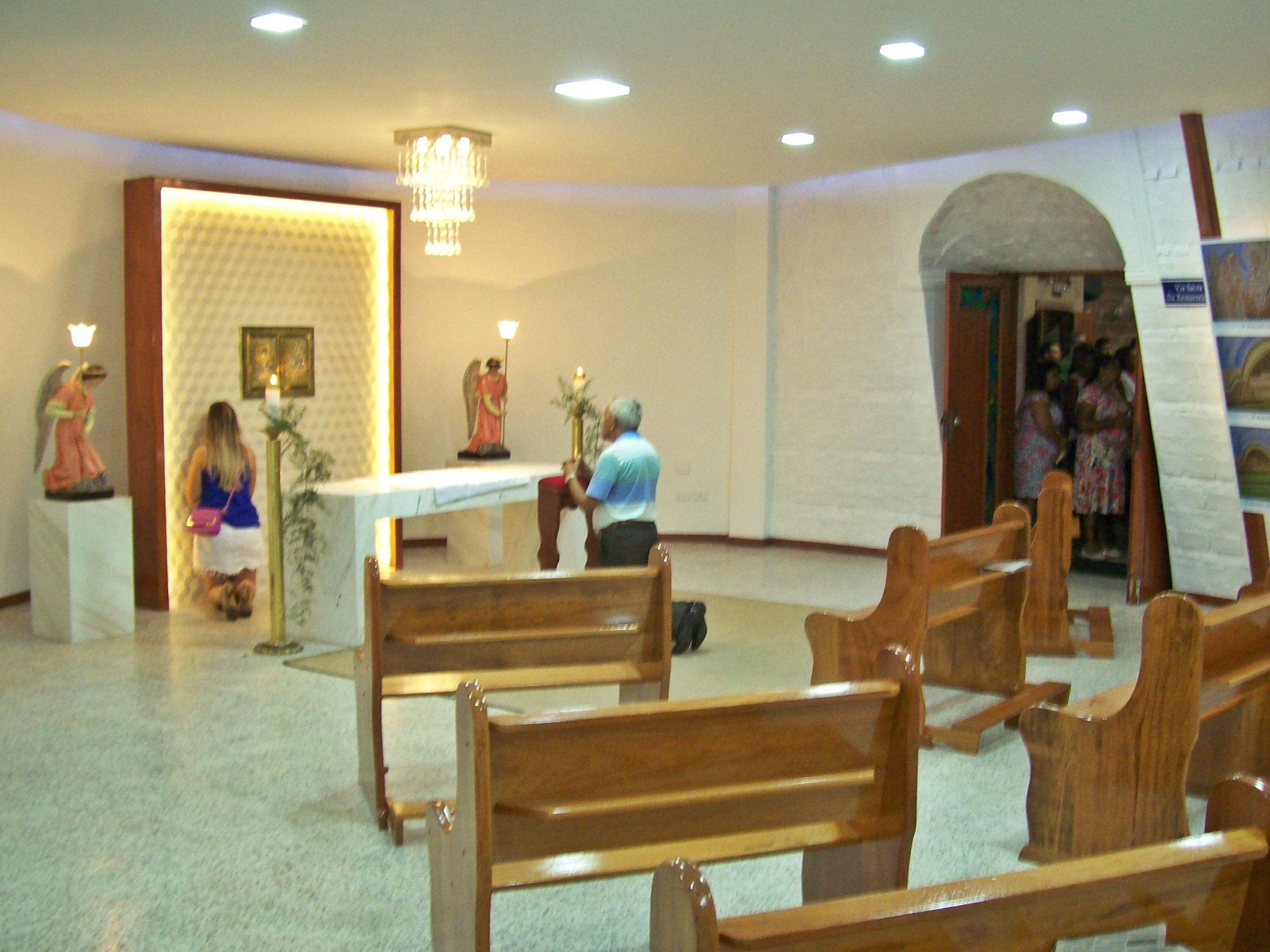 Interior of the Blessed Sacrament chapel of the Saint Sebastian Cathedral, in Coronel Fabriciano, Minas Gerais, Brazil.